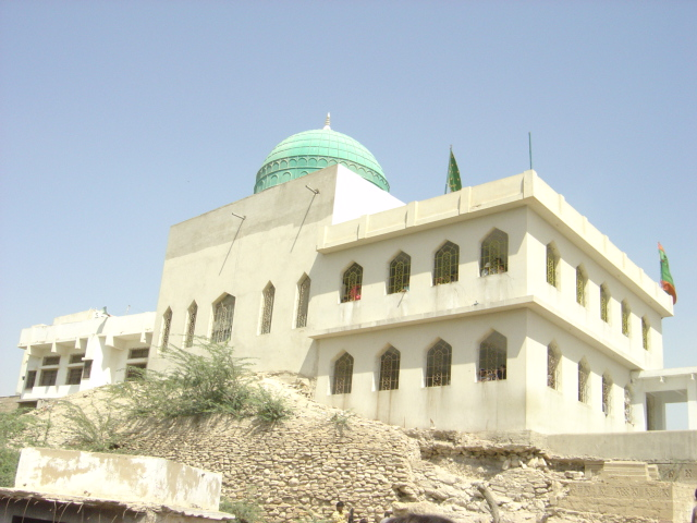 Shrine of Pir Mangho (Manghopir) This is a photo of a monument in Pakistan identified as the SD-U-25